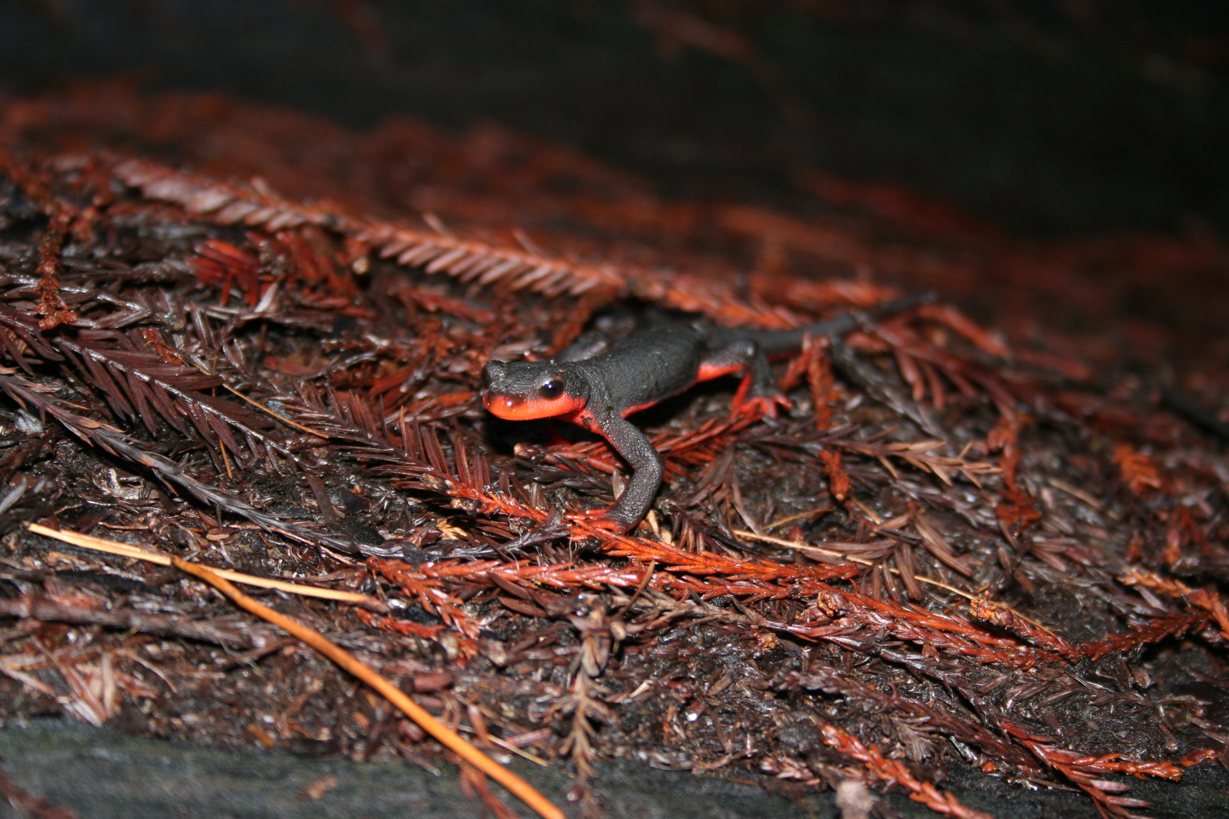 salamander in the Redwoods in Northern California.